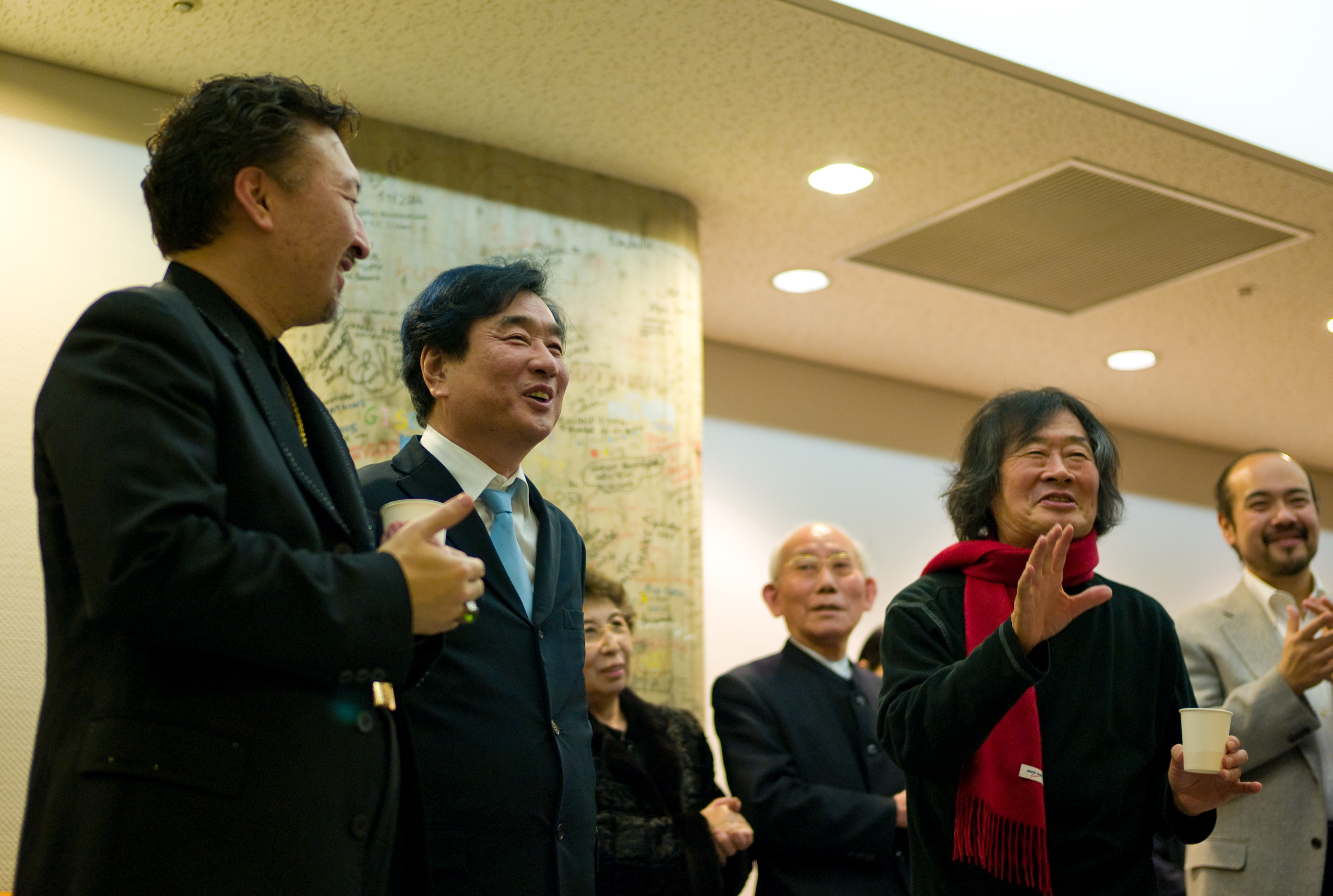 Mr. Shinozaki, Shigeaki Saegusa and Kenichiro Kobayashi